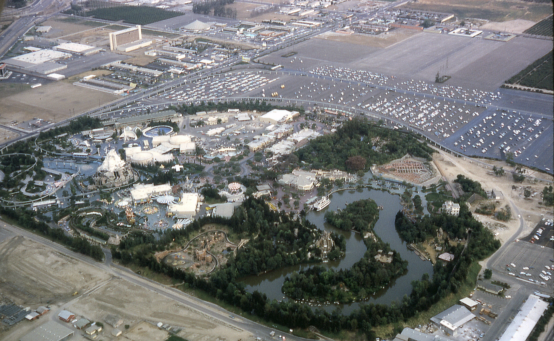 Aerial view of Disneyland looking southeast in 1963, located in Anaheim, California, United States. The Santa Ana Freeway (I-5) is in the upper left corner. Harbor Boulevard forms the eastern boundary of the park. To the middle right, one can see the Haunted Mansion under construction. While the main building is complete on the outside (the white building), the show building is just beginning construction on the right side of the railroad tracks (most of the ride takes place in a show building outside the confines of the railroad). The Haunted Mansion would open in 1969. Also under construction, and up and left from the Haunted Mansion, is Pirates of the Caribbean, which opened in 1967. The two attractions took a while to build because Disney's engineering arm at the time, WED Enterprises (now known as Walt Disney Imagineering), was busy on projects dealing with the 1964 New York World's Fair. Both attractions are located in New Orleans Square, which opened in 1966. Anaheim's newly completed Melodyland Theater ("theater-in-the-round"), is at the top of the photo.